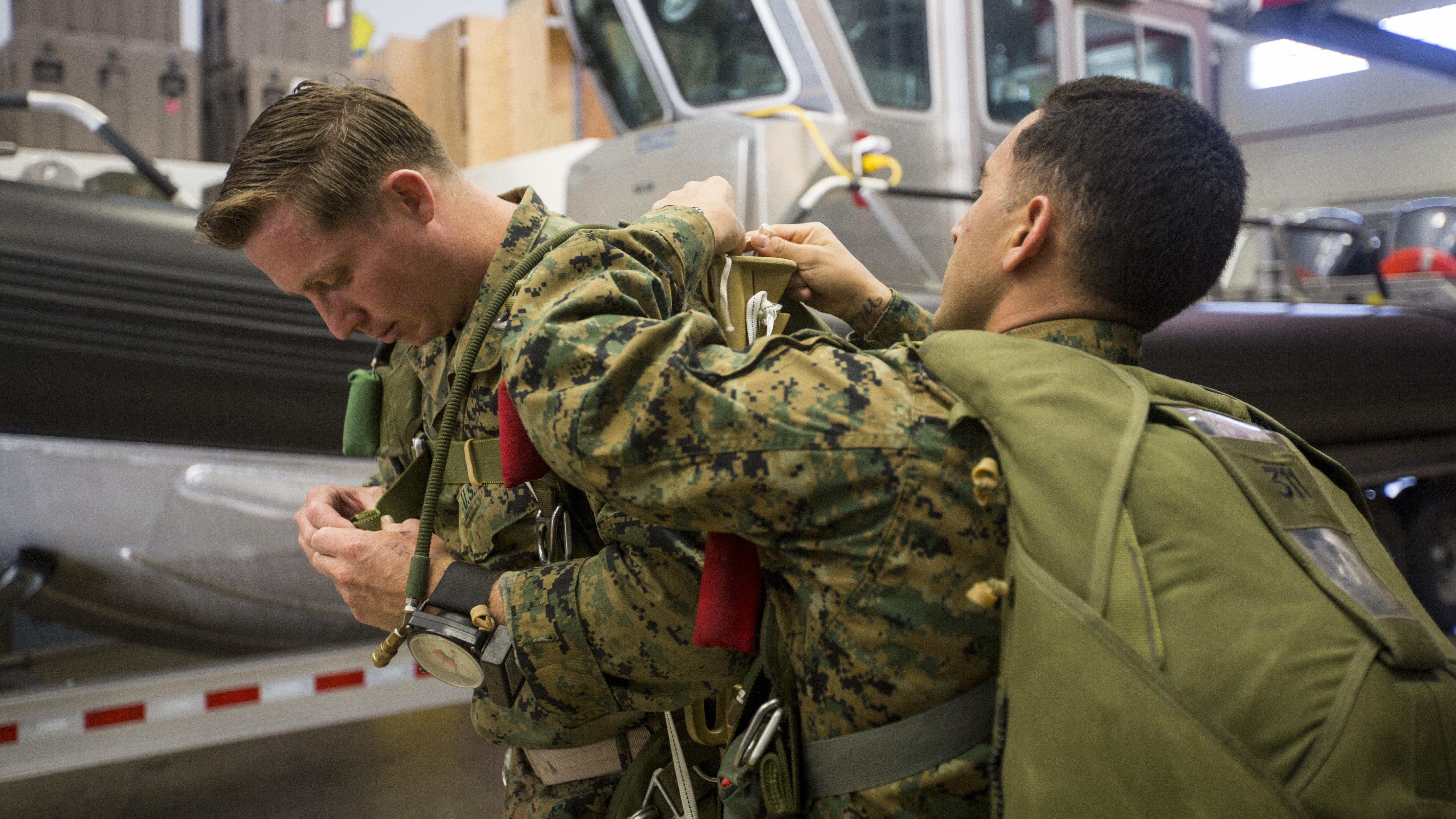 US Marines from the 3rd Reconnaissance Battalion practicing the Jumpmaster Personnel Inspection at Kadena Air Base, Okinawa, Japan during the Military Free-Fall JumpMaster Course (MFFJMC), conducted by the U.S. Military Free-Fall School's Mobile Training Team. Note: This was the first time the MFFJMC was conducted outside the continental United States.